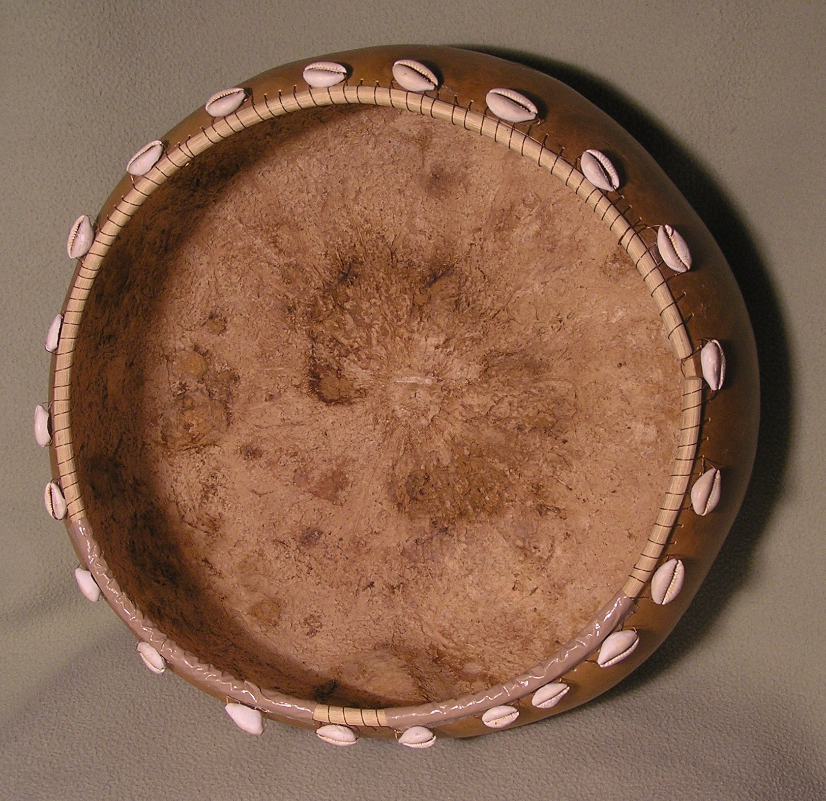 Deze, taken with an Olympus C-770 digital camera on 2005-11-11.